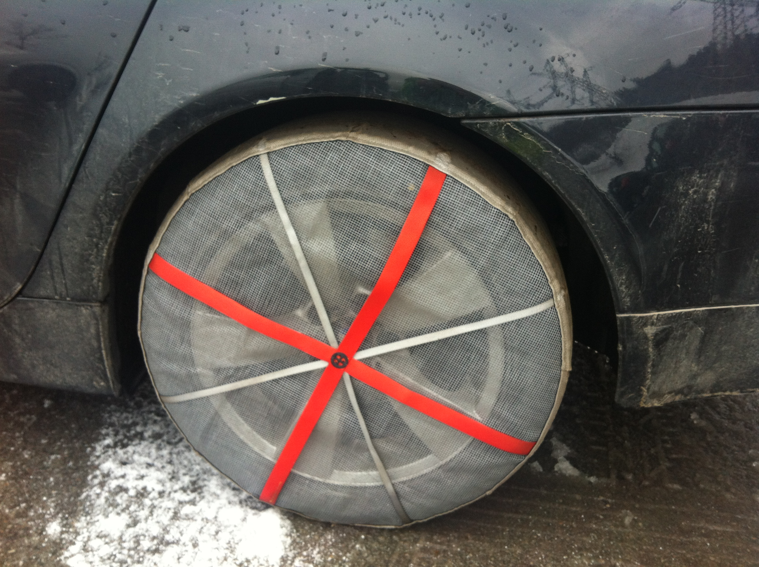 Snow chains made of fabric also called Snow socks